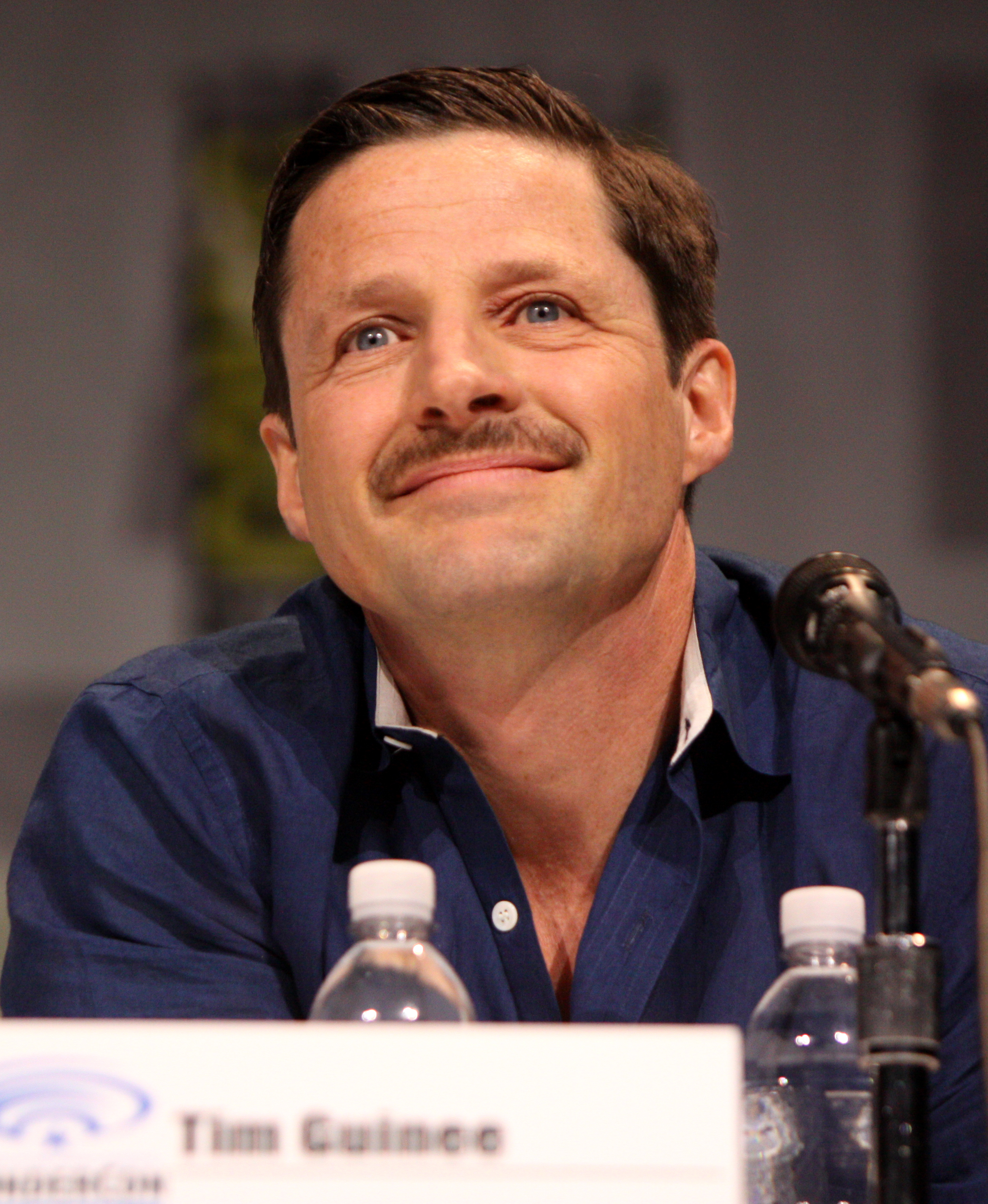 Tim Guinee speaking at the 2013 WonderCon in Anaheim, California on March 30, 2013.